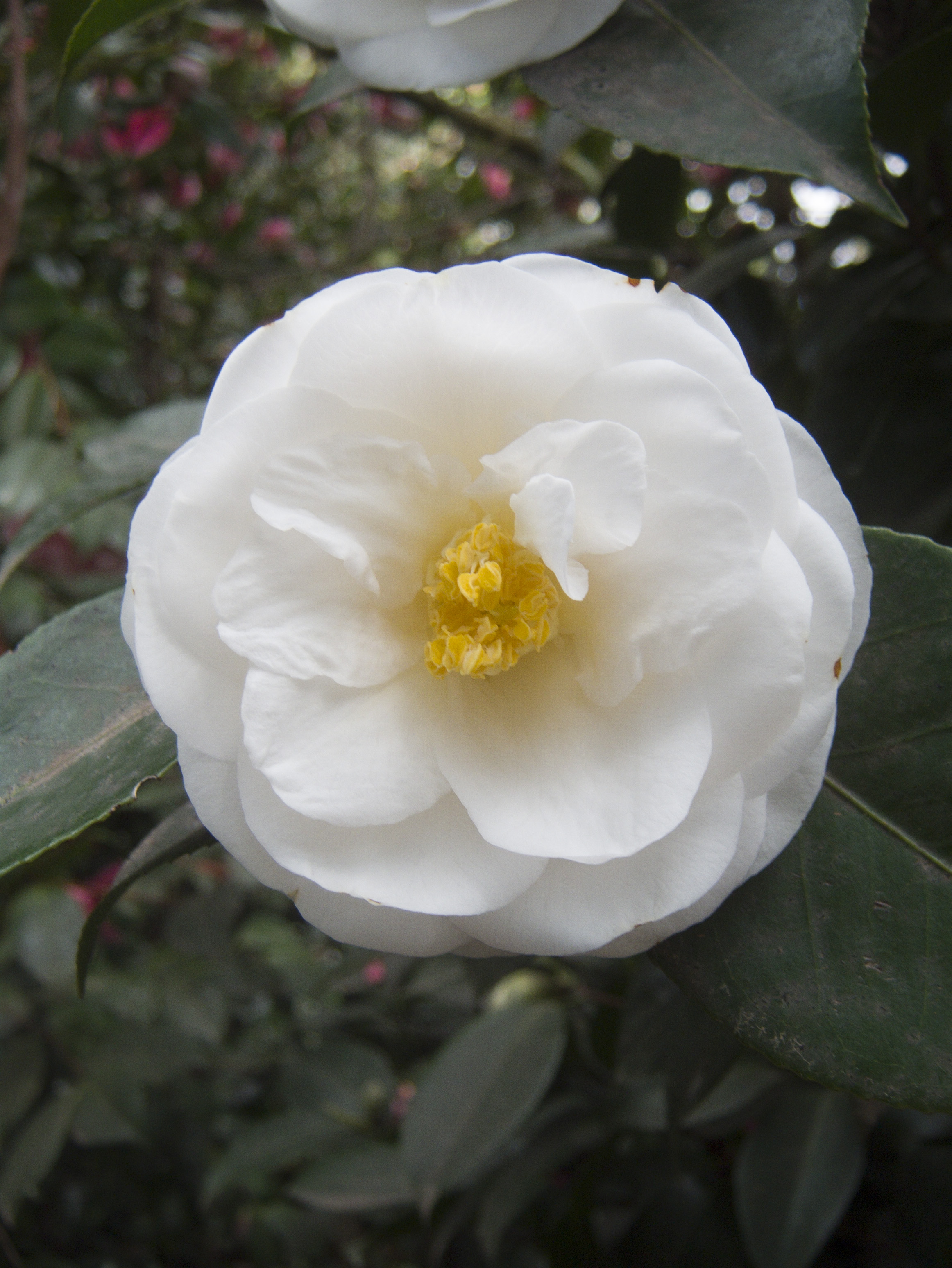 Camellia japonica 'Janet Waterhouse' bred by E.G. Waterhouse in Gordon NSW in 1952; photographed in the National Rhododendron Garden, Olinda, Victoria.